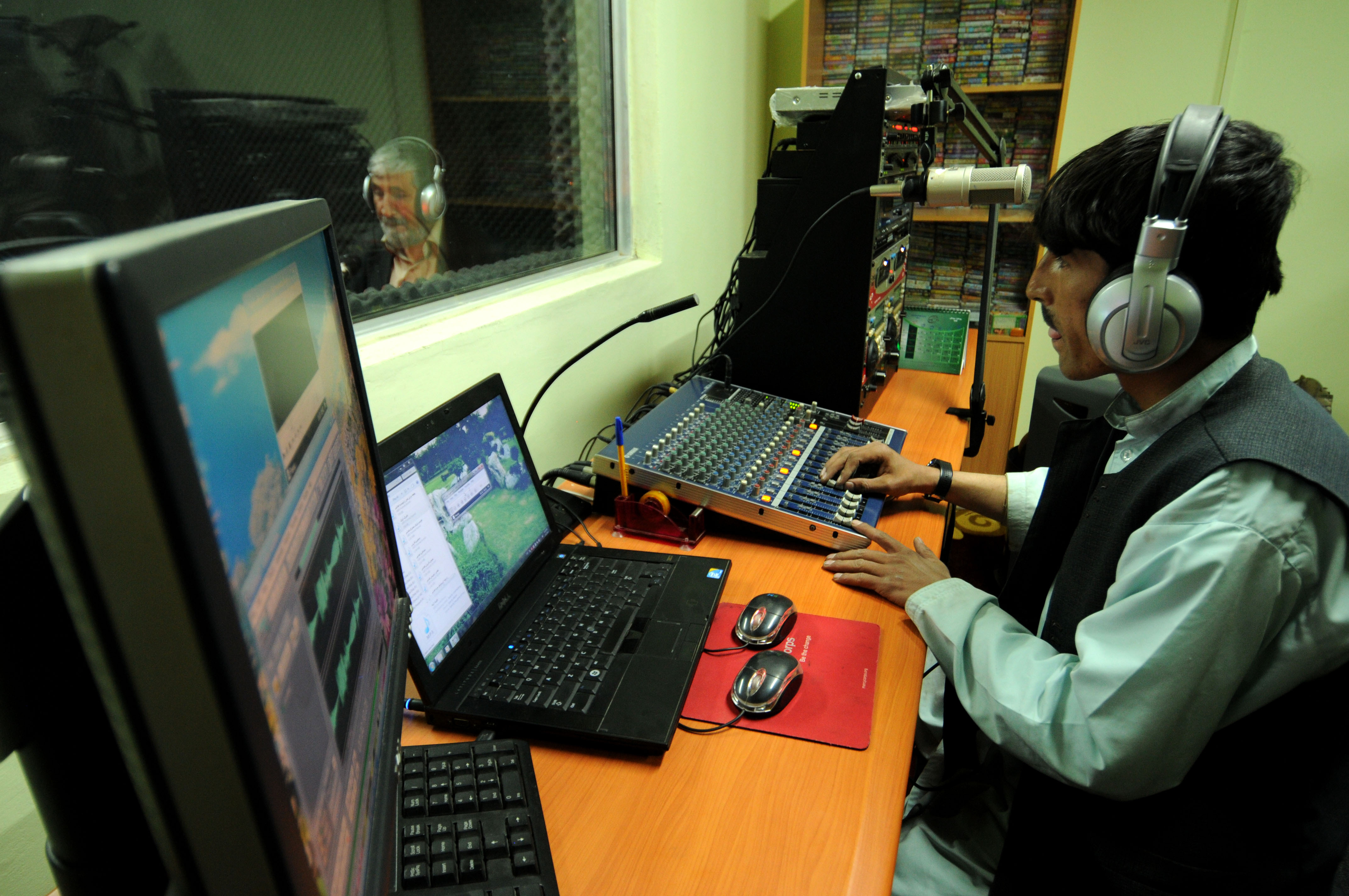 A radio station worker runs the sound equipment while Abdul Ghafar Afzali, the attorney general for Zabul province, speaks during the Rule of Law Radio live broadcast at the Qalat radio station in Qalat, Afghanistan, Feb. 12. Members of the Zabul provincial legal community took to the airwaves in the inaugural radio program that introduced key members of the legal community and explained the formal legal system to the people of Zabul province. (Photo ID: 865883)